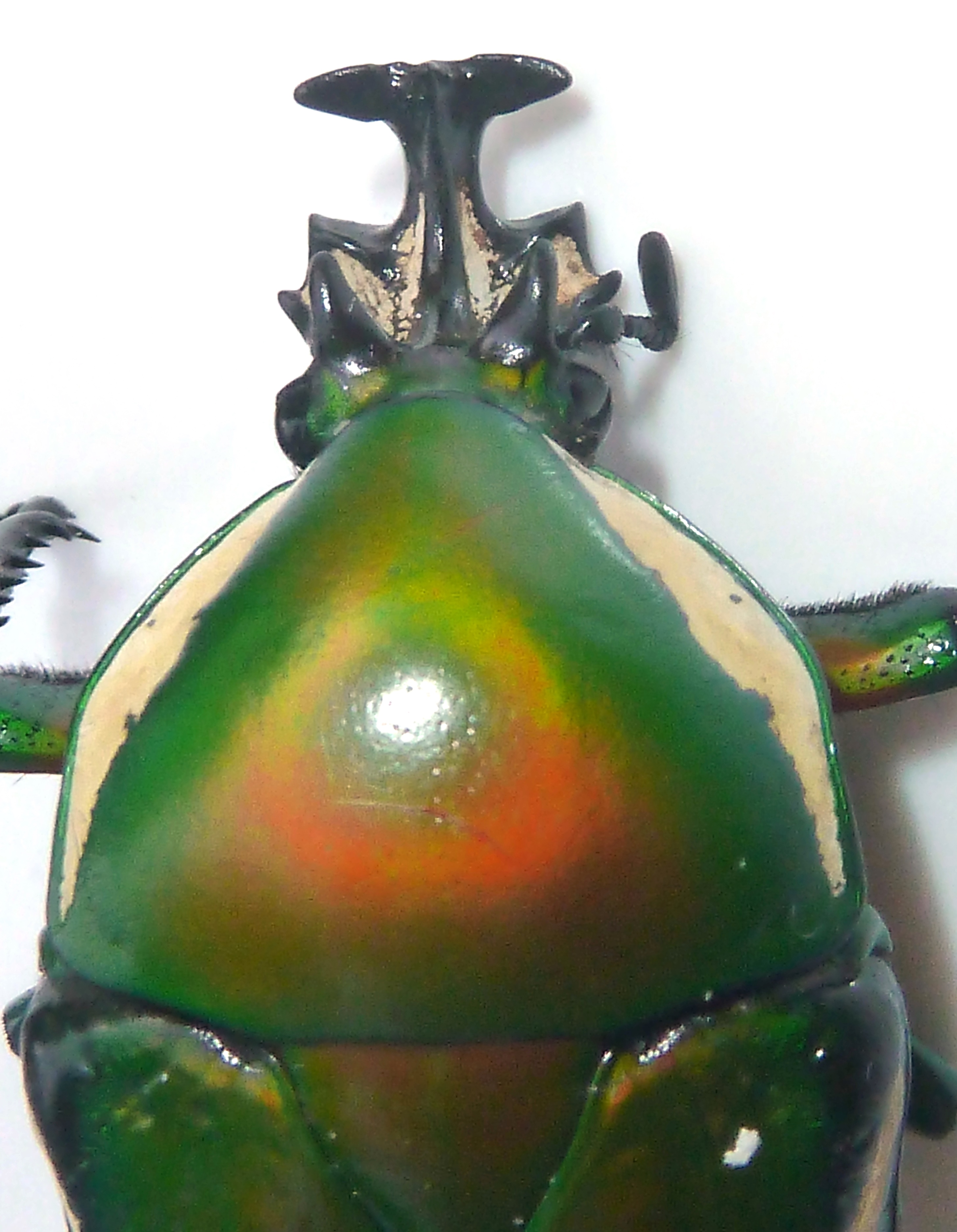 Head of male Dicronorrhina derbyana subsp derbyana, in Pretoria, South Africa